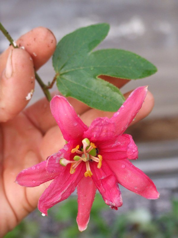 Passiflora antioquiensis